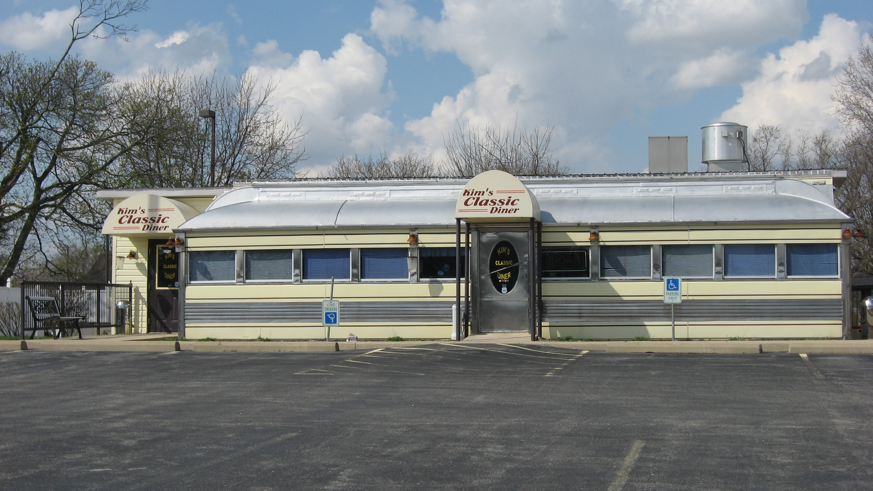 Front of the Silk City Diner #4655 (now Kim's Classic Diner), located at 303 W. Washington Street (U.S. Route 22/State Route 3) in Sabina, Ohio, United States. Built in 1946, it is listed on the National Register of Historic Places.